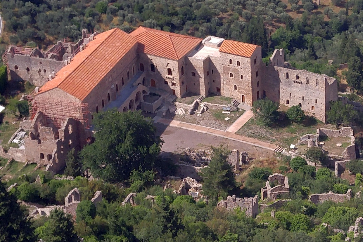 Despot's Palace (Mystras, Greece, 2017)